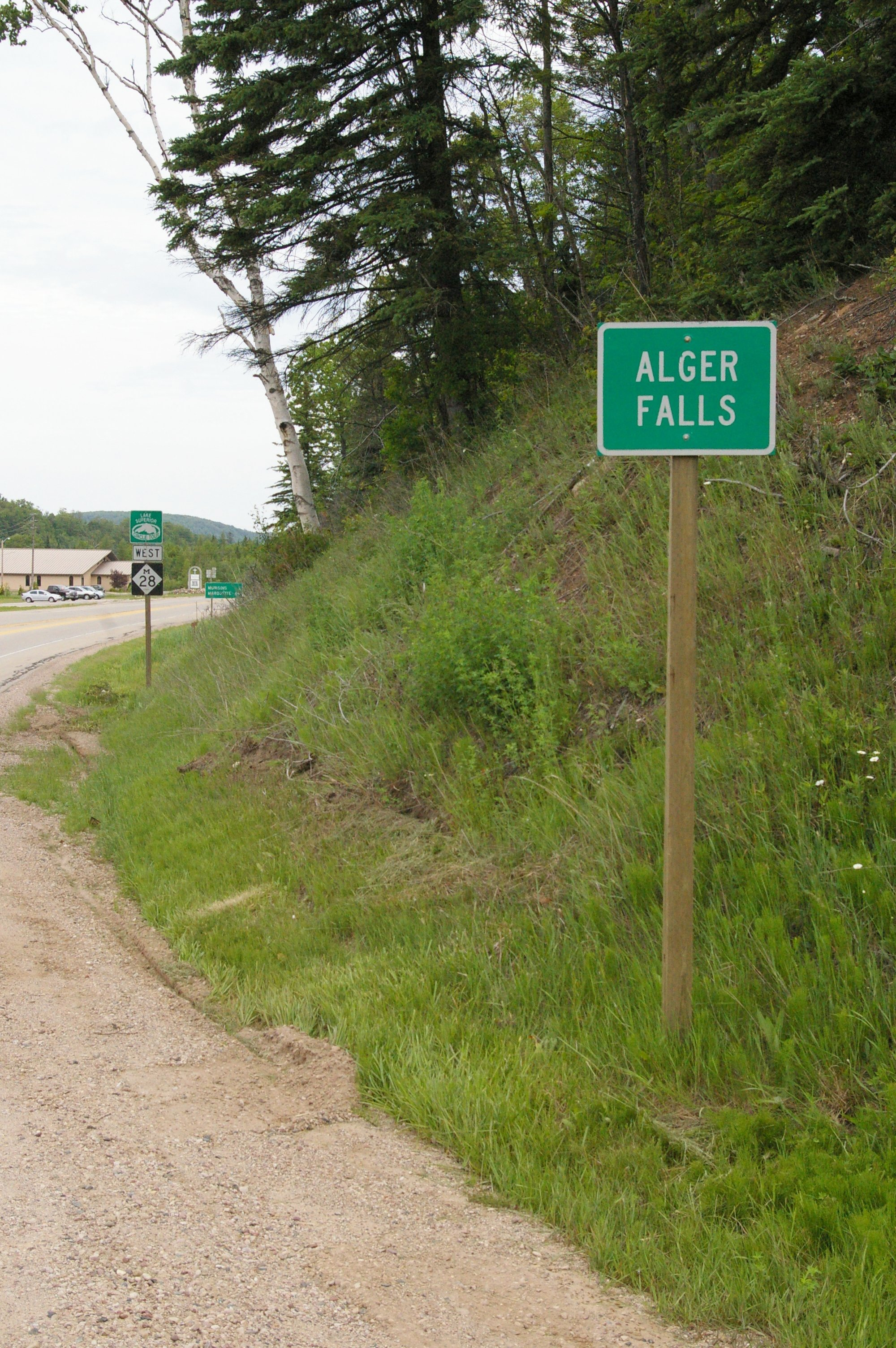 Sign for Alger Falls along M-28 near Munising, MI